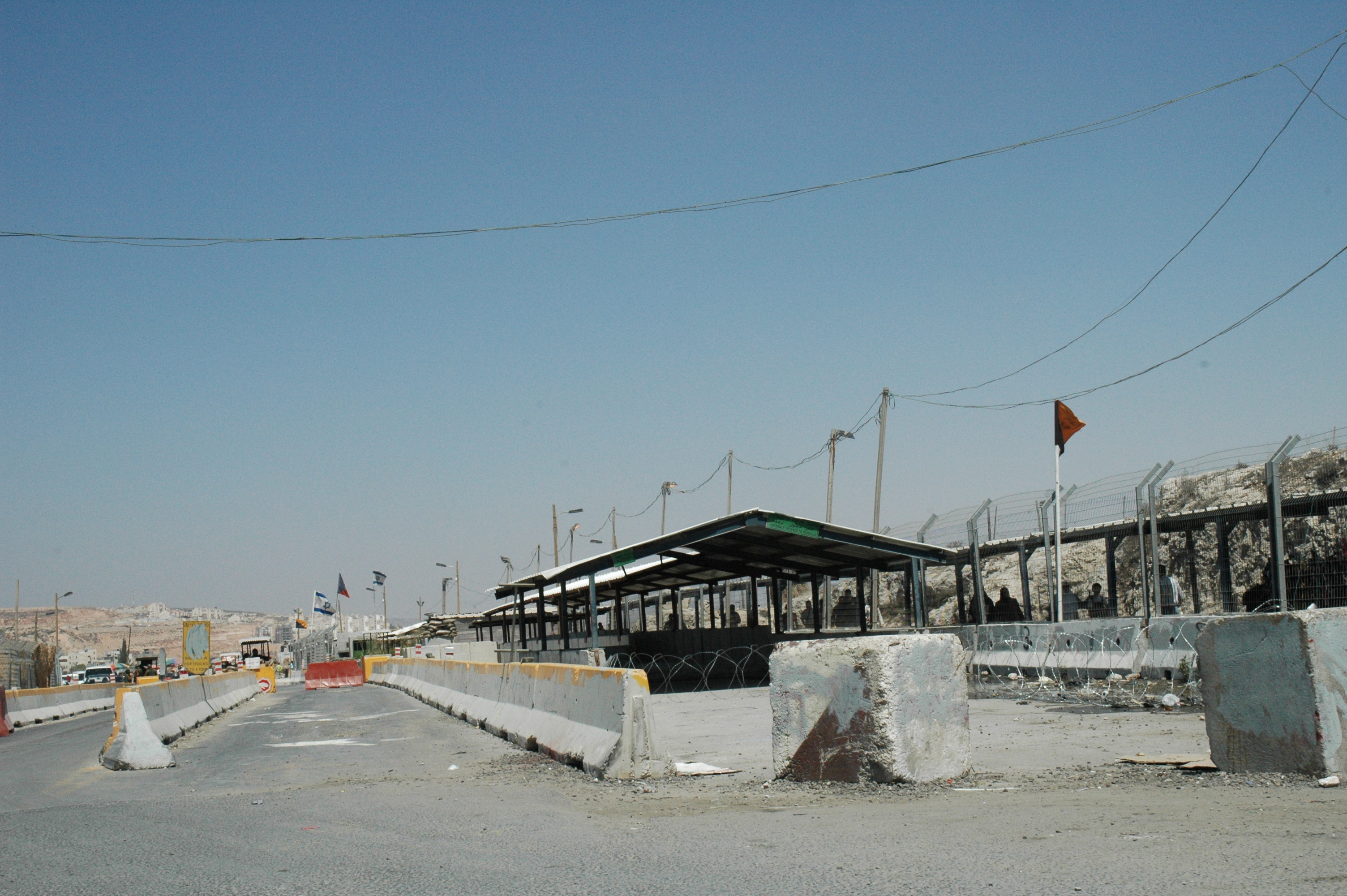 Kalandia checkpoint.